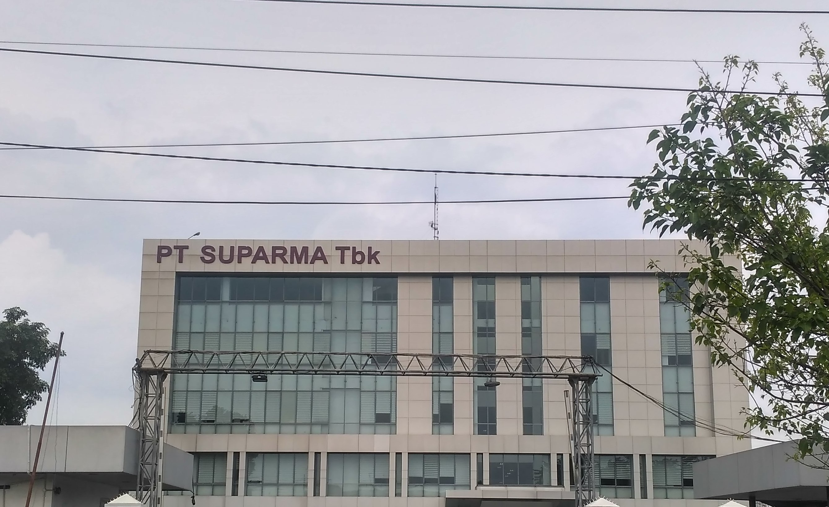 Headquarters of PT Suparma Tbk 2018-01-28